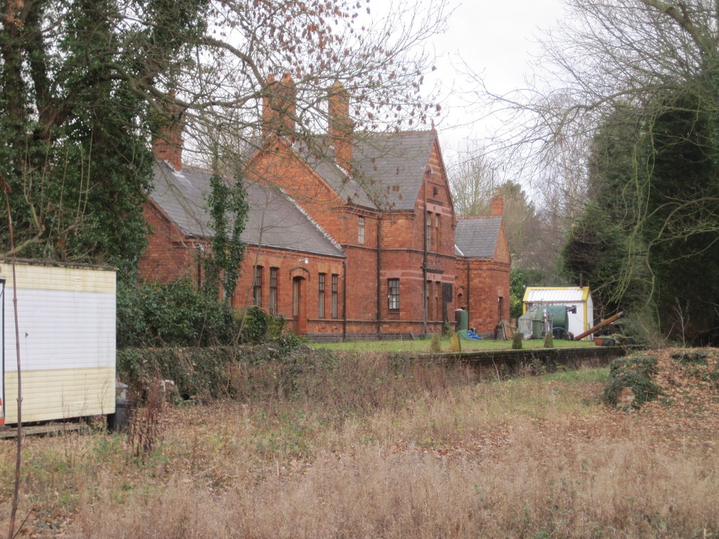 Kirk Smeaton railway station (site), YorkshireOpen in 1885 by the Hull & Barnsley Railway, this station closed in 1932 to passengers, and completely in 1959. View north east towards Carlton Towers and Hull.